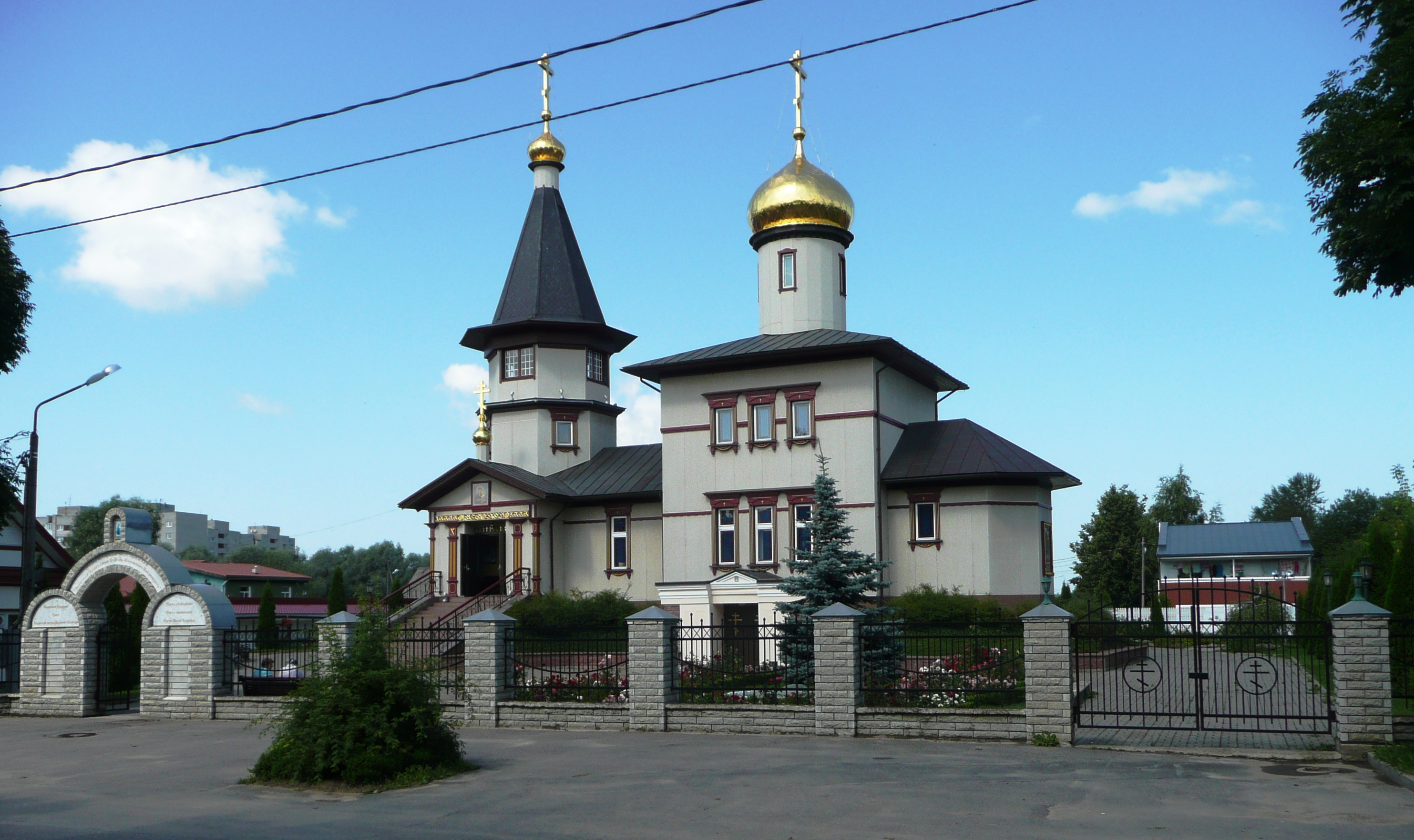 Church of the Narva Icon of the Mother of God (August 2013).